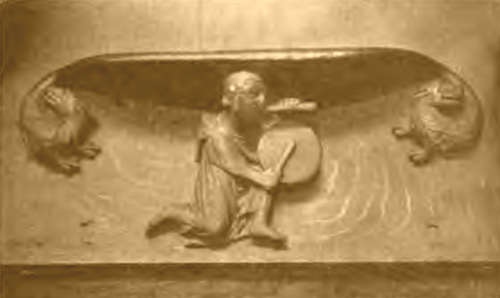 Relief carving of a pipe and tabor player. 13th Century misericord in Exeter Cathedral.